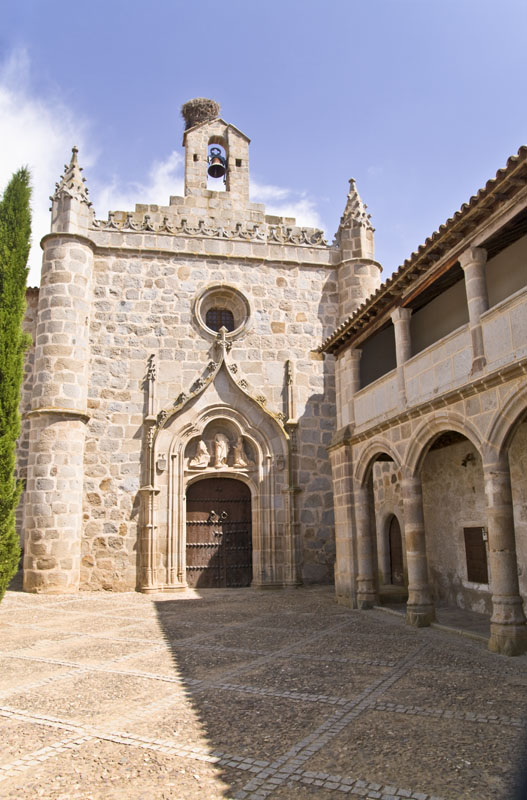 Convento de Santa Clara, Belálcazar